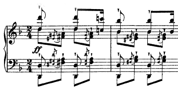 Excerpt from Liszt's Transcendental Etude 4 "Mazeppa"